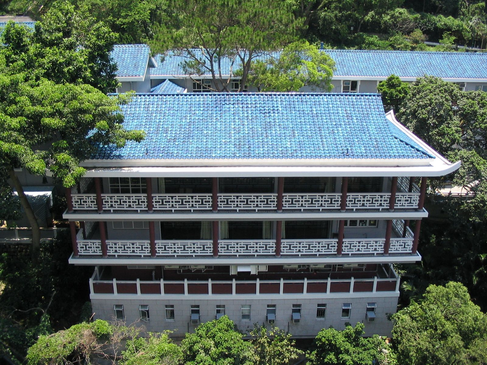 香港大學-柏立基學院 Robert Black College, University of Hong Kong